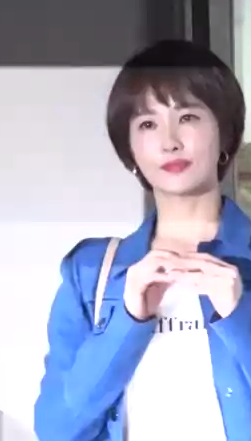 Kim Sun-a, a South Korean actress